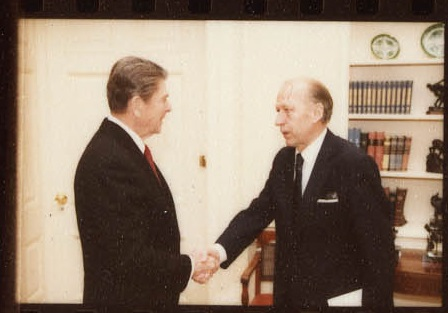 Ambassador of Denmark Eigil Jørgensen presents credentials to Ronald Reagan